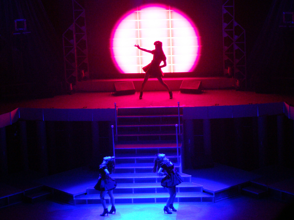 Sayumi Michishige of Morning Musume during the group's Platinum 9 Tour 2009 at Nakano Sun Plaza, Tokyo